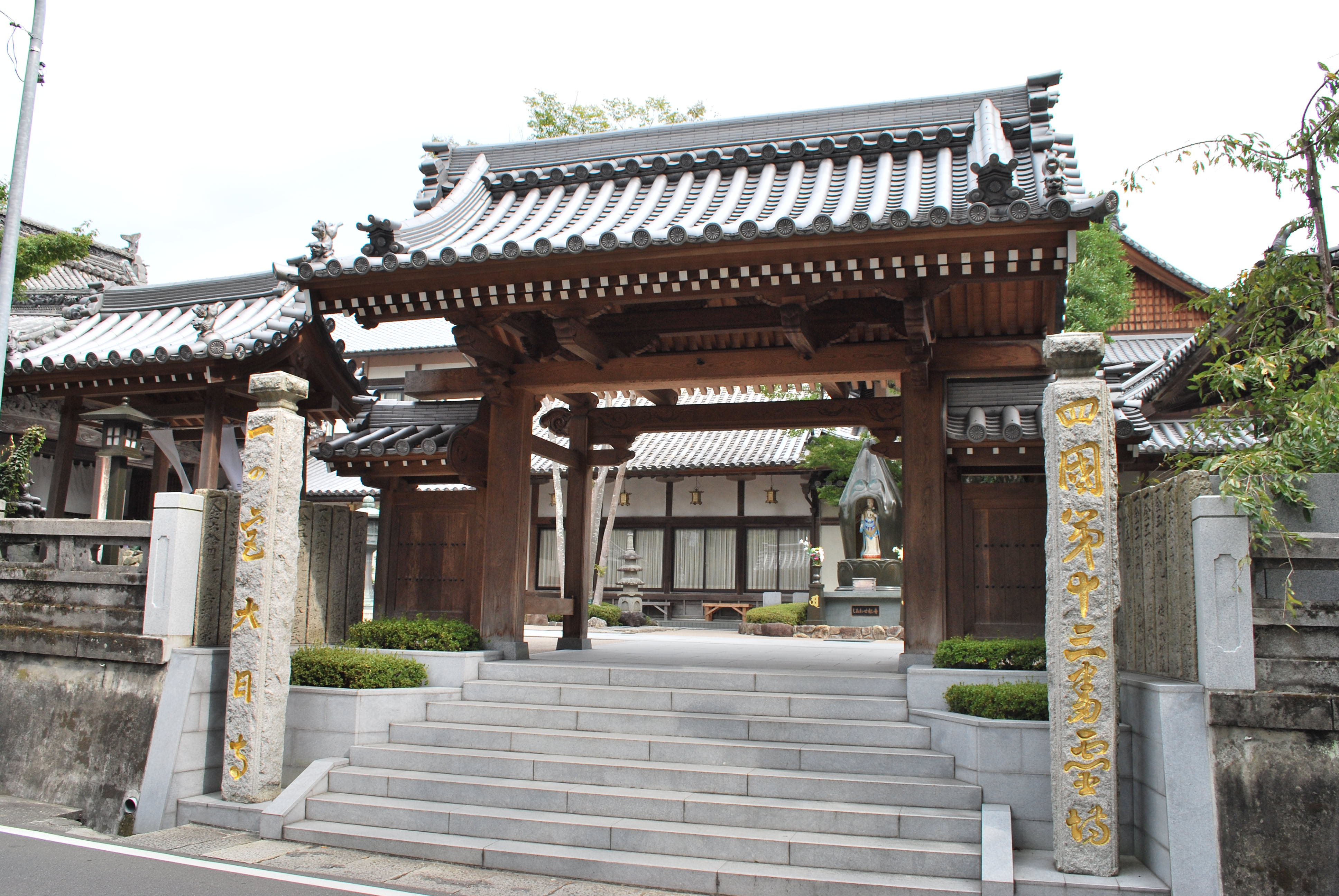 Temple gate, Dainichi-ji